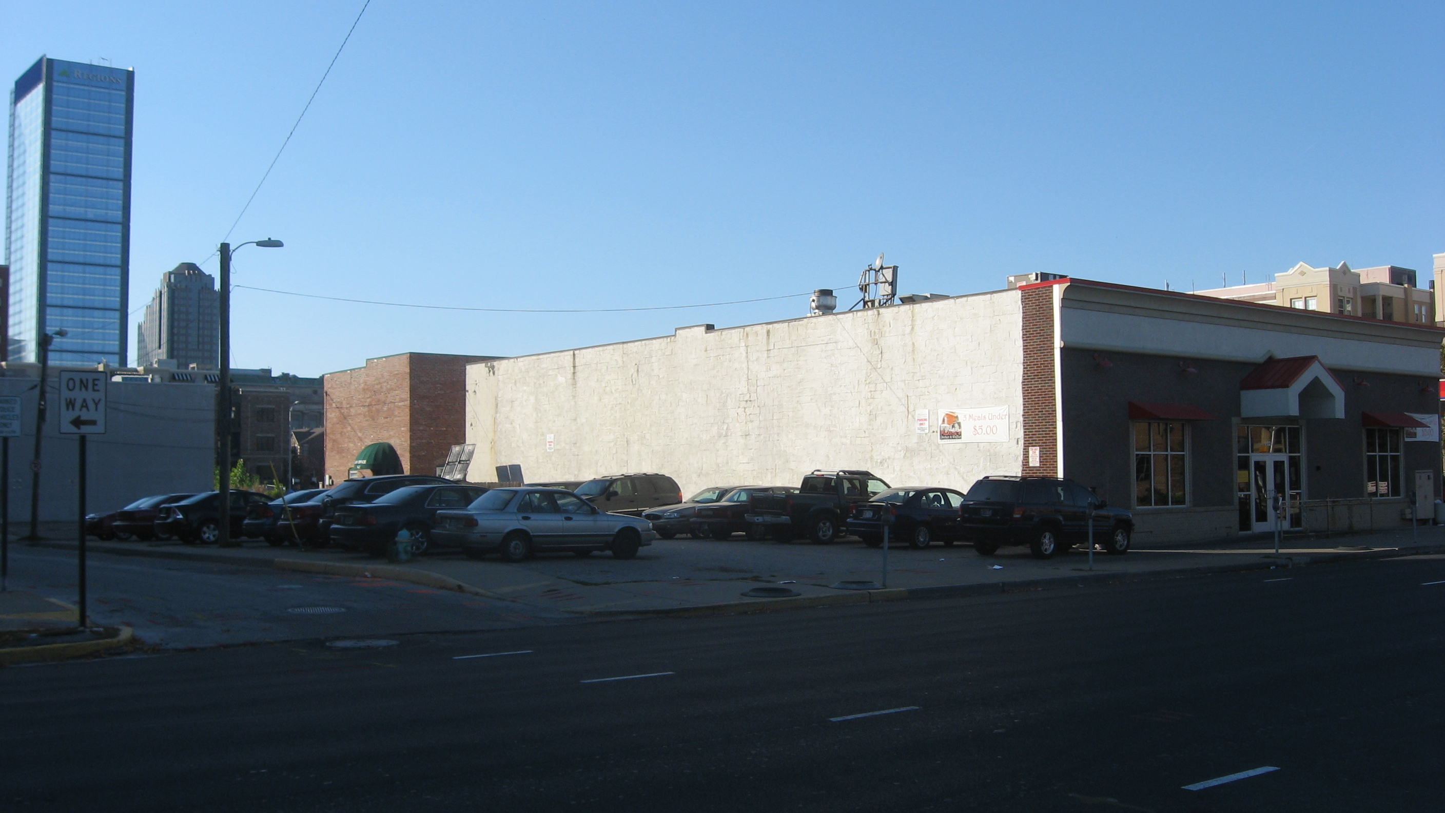 Parking lot on the site of The Harriett, formerly located at 124-128 N. East Street in Indianapolis, Indiana, United States. It was listed on the National Register of Historic Places before it was destroyed, but it has been removed.